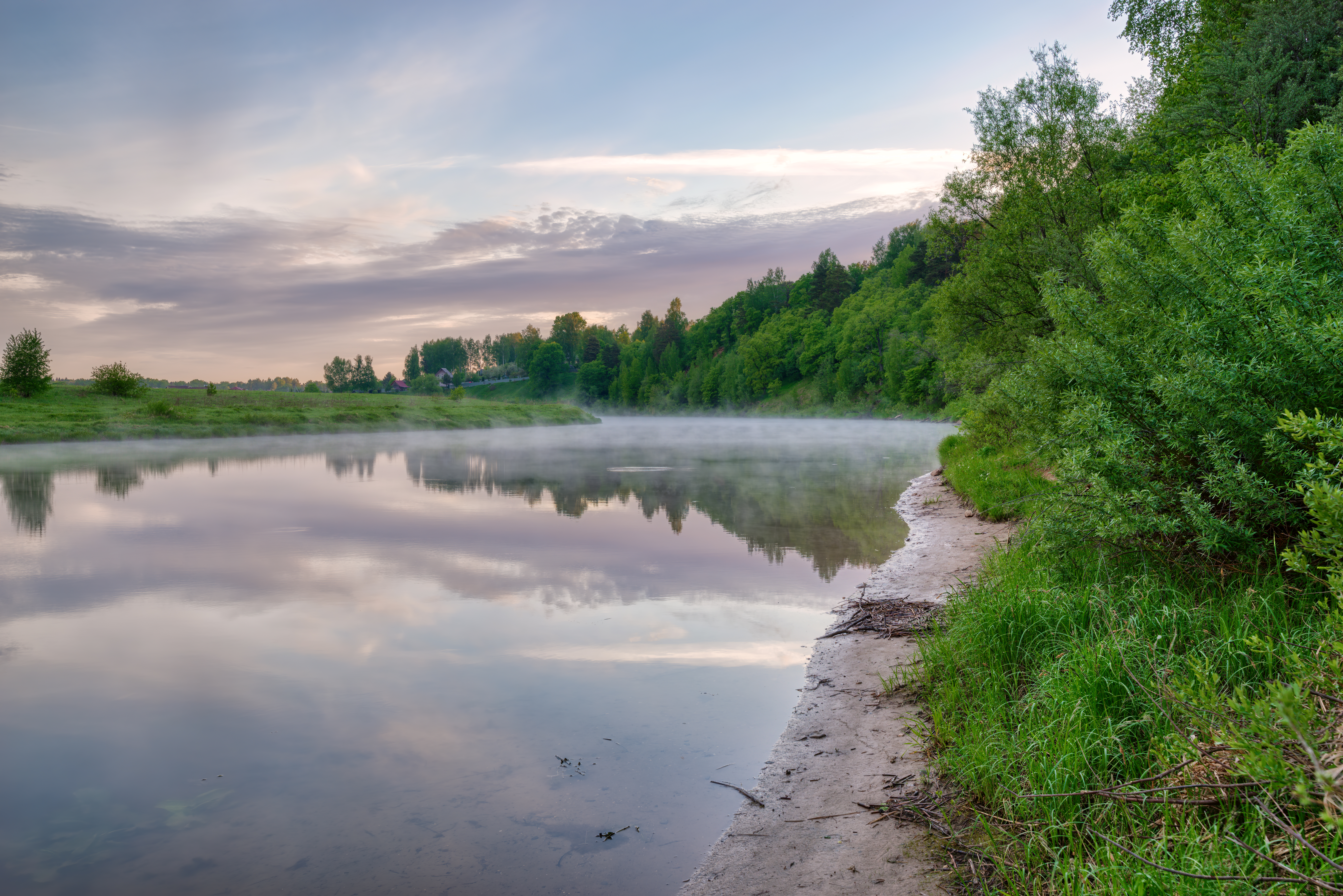 It river near the village of Sofino seen from south-west to north-east. Middle of may, at the sunrise. Yaroslavl region of Russian Federation. This image is related to the protected area of Russia number 7610487